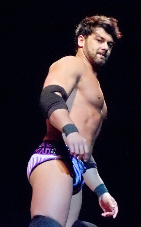 Justin Gabriel at a WWE house show in January 2012.